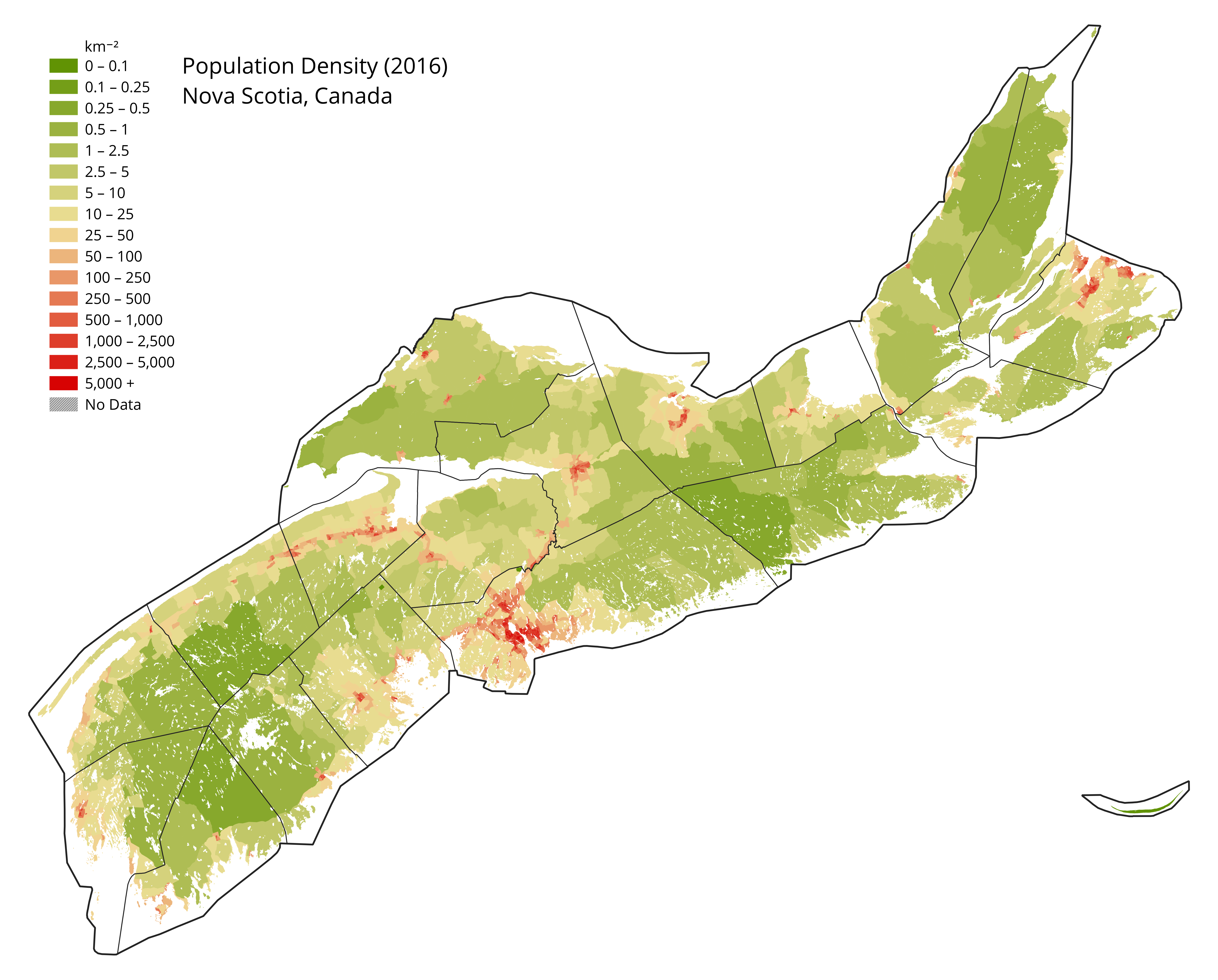 Population density map of Nova Scotia, Canada. Boundary open data and final counts from Canadian 2016 Census accessed on April 22 2018. Waterbodies from WWF HydroLAKES database.